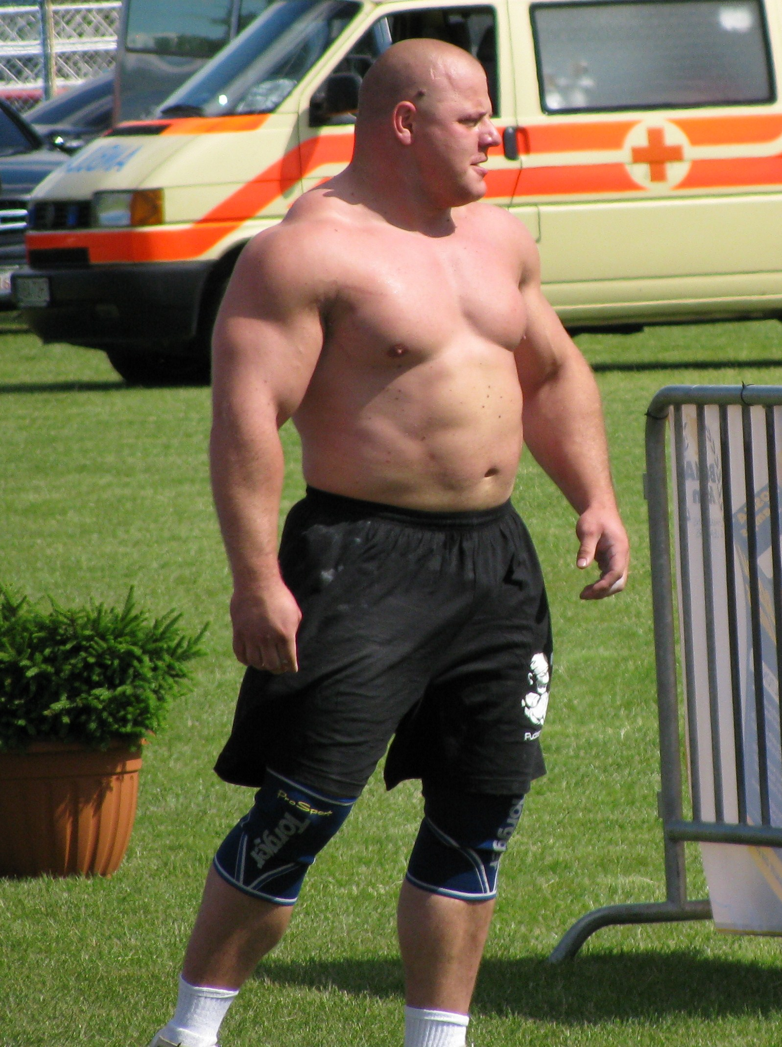 Tomasz Kowal - a strength athlete from Poland